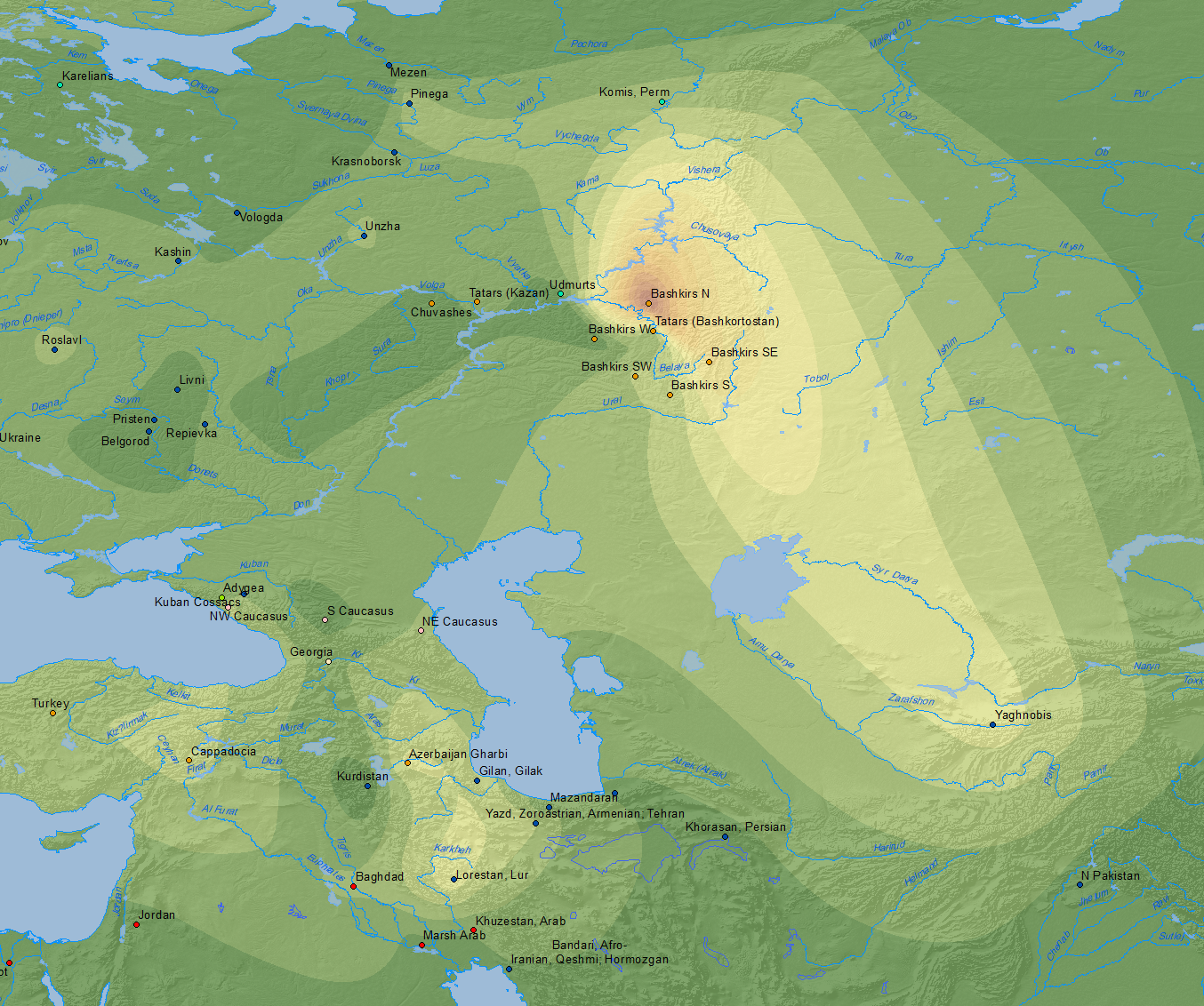 R1b-M343 (xM269) Yaghnobi genetics (DNA)